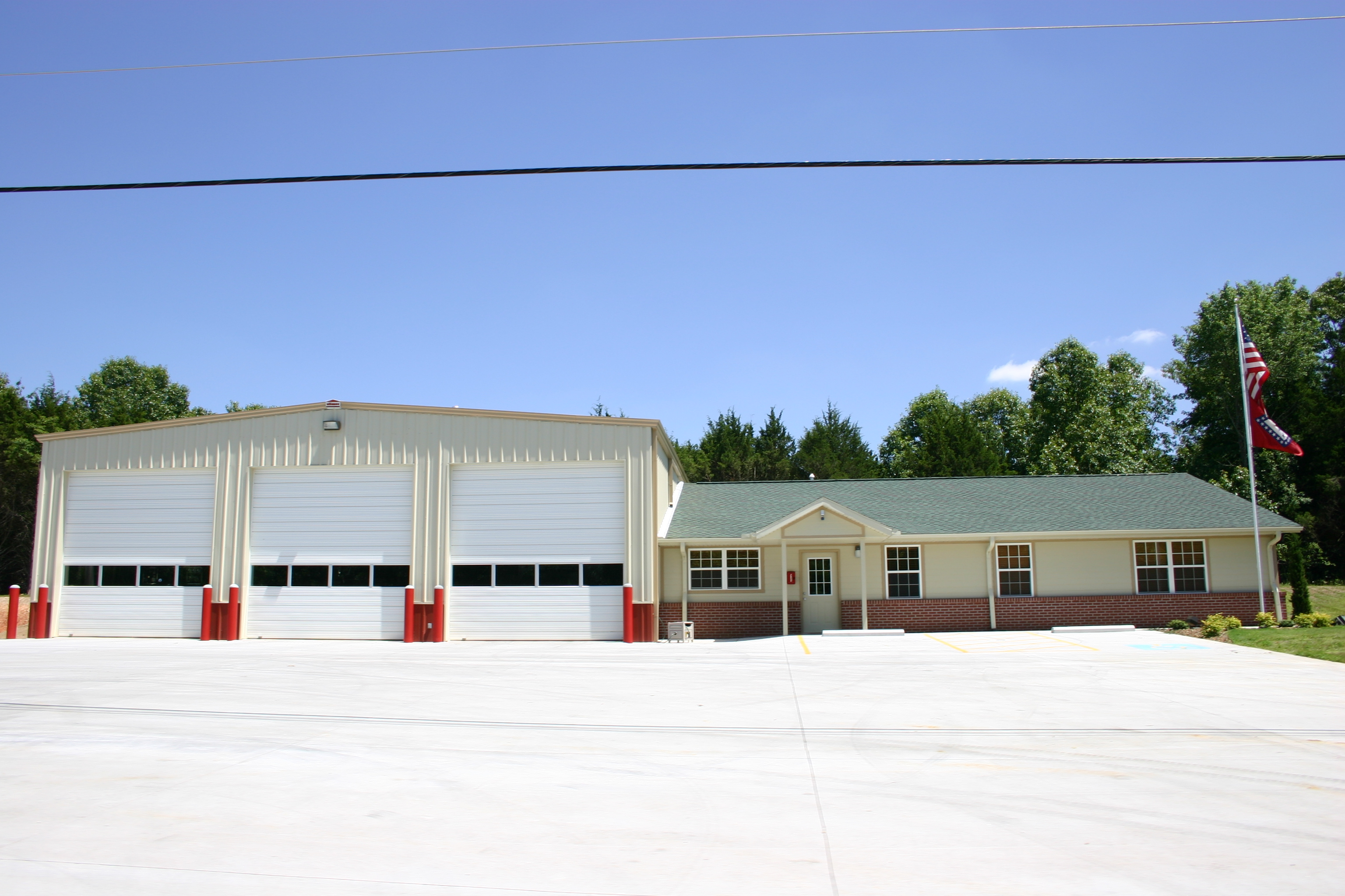 Summary Author: Michael Krewson